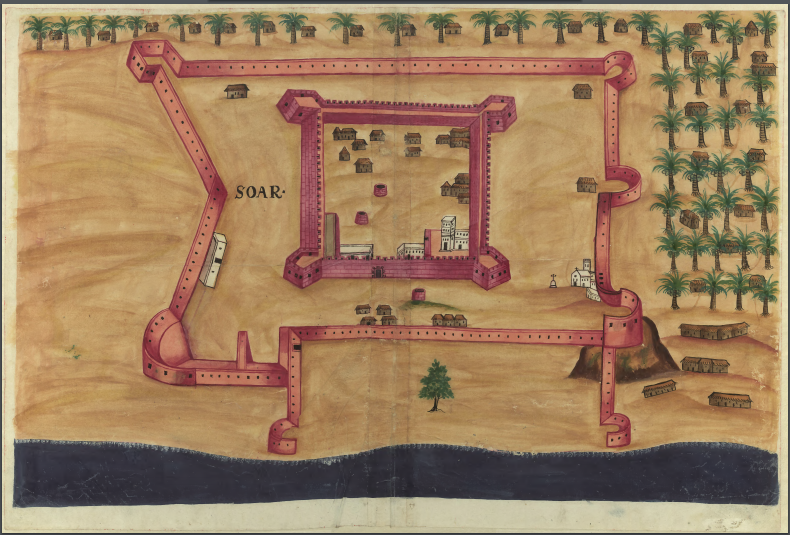 Sohar (Soar) Portuguese 16th century Fortress in a drawing of the 17th century Book of Fortress.